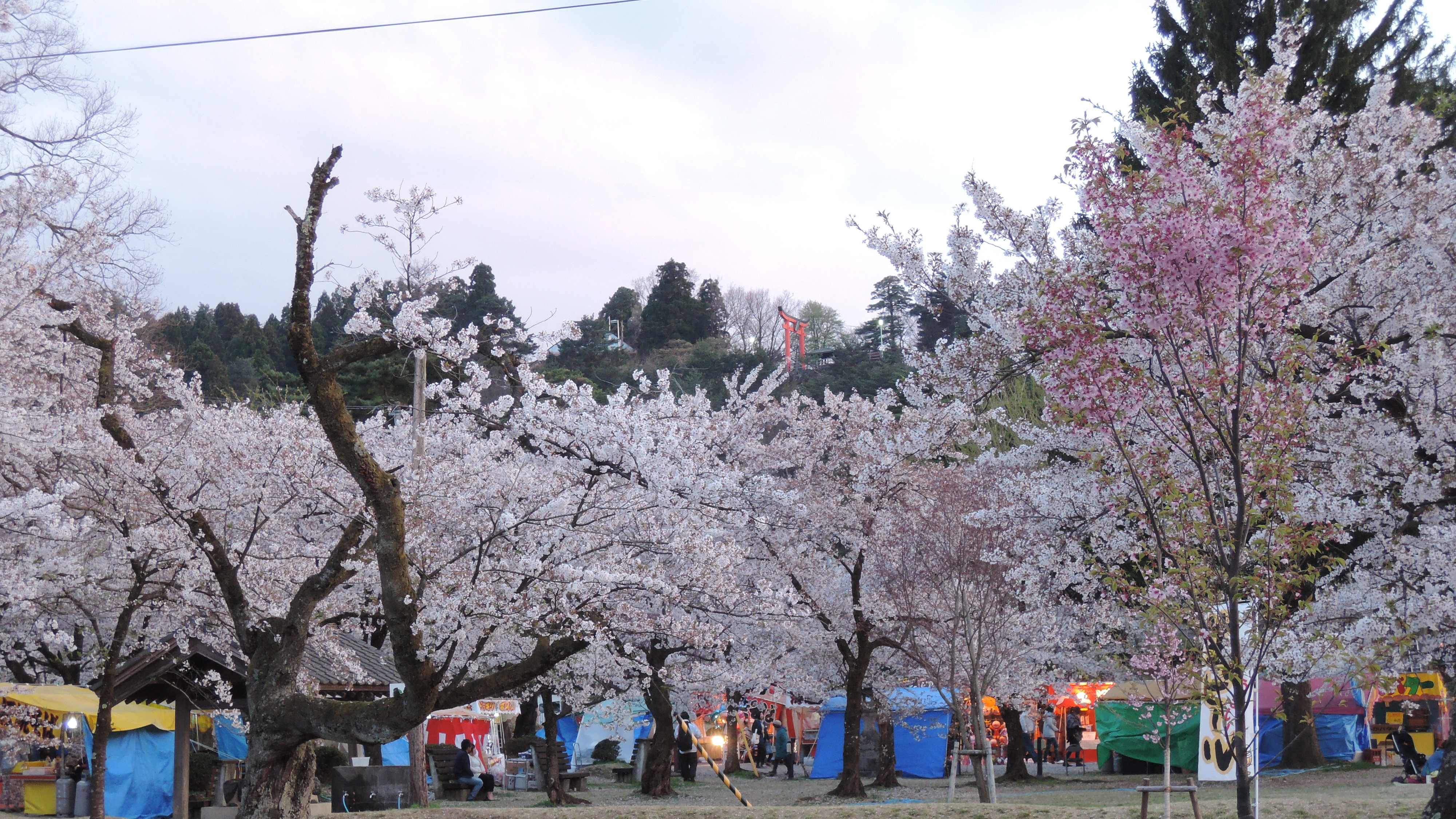 Muramatsu park(Japan's Top 100 famous place of cherry trees) ,Niigata prefecture,Japan